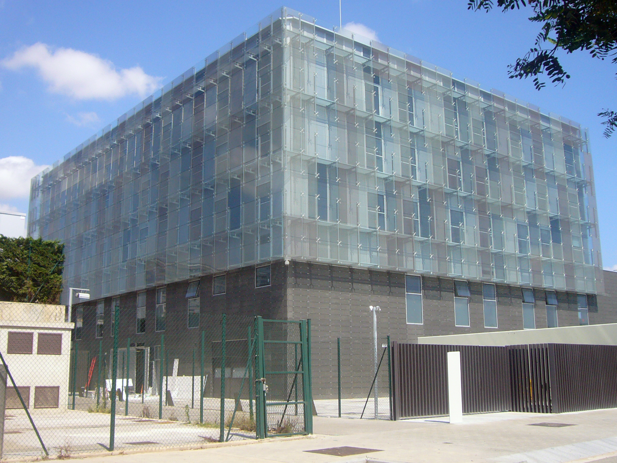 New Masia building, at the Ciutat Esportiva Joan Gamper